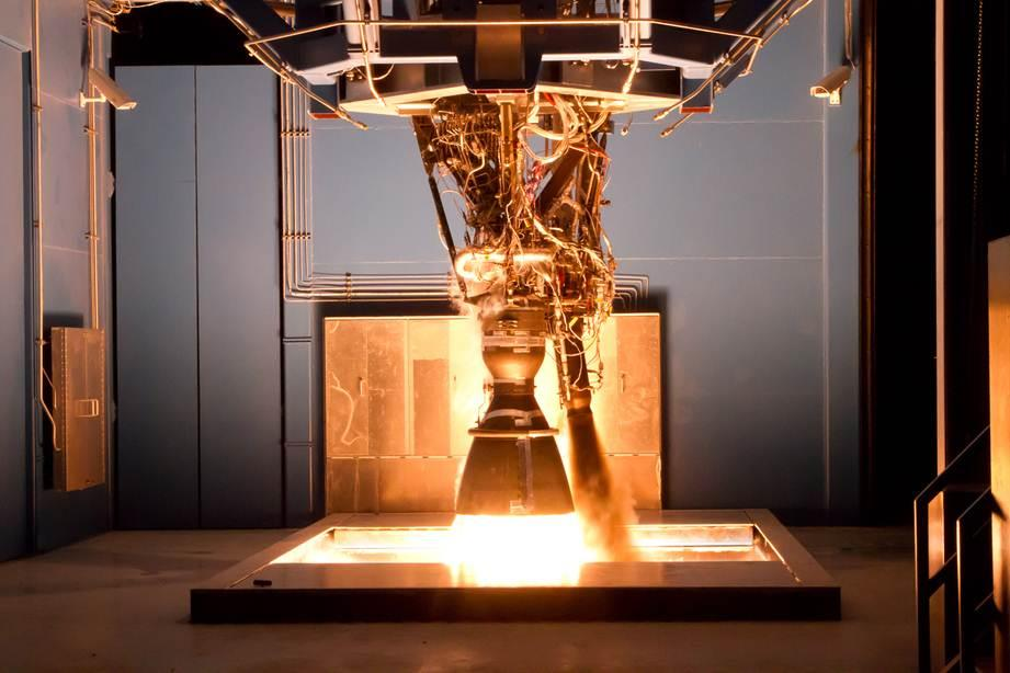 Merlin 1D Test Fire One of the new Merlin 1D engines that will power the Falcon 9 rocket on future missions is test fired at SpaceX's Rocket Development Facility in McGregor, Texas.